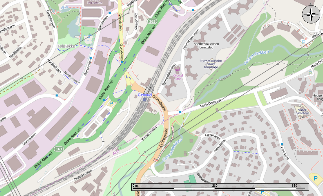 Open Street Map showing the Grorud Rail station in Norway.